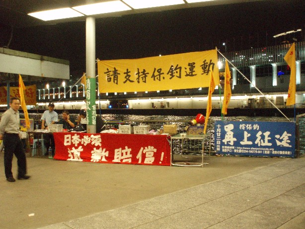 Table that was set up at Tsim Sha Tsui in Hong Kong by the grass-roots activist group, Action Committee for Defending the Diaoyu Islands. Official website